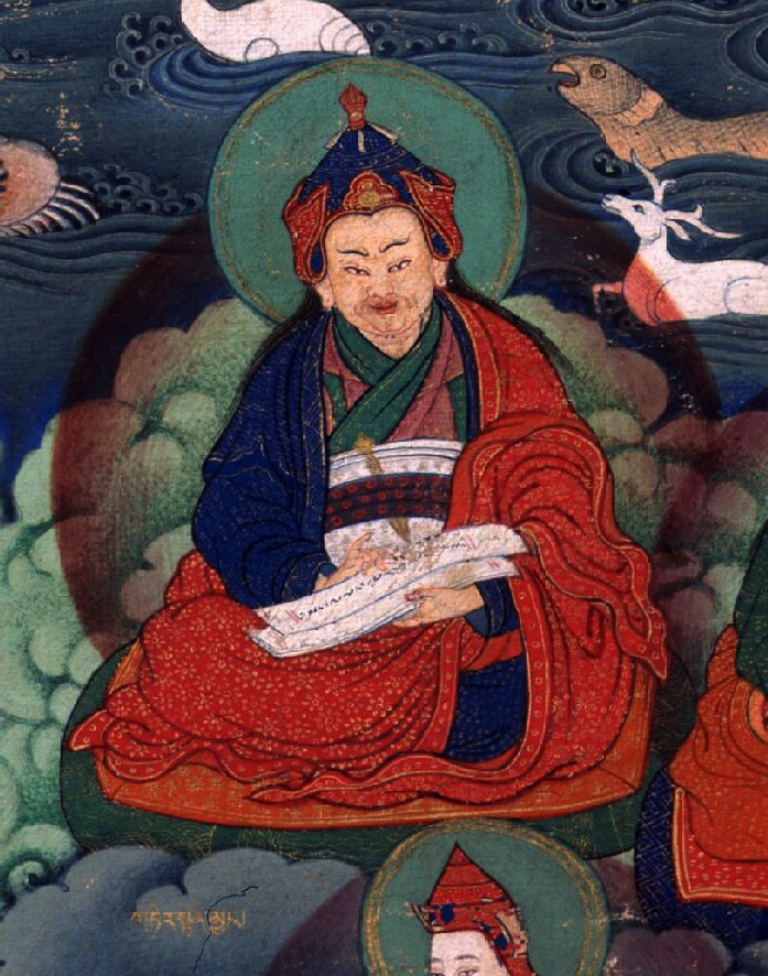 Nyangrel Nyima Ozer, 1124- 1192, Tibetan Terton